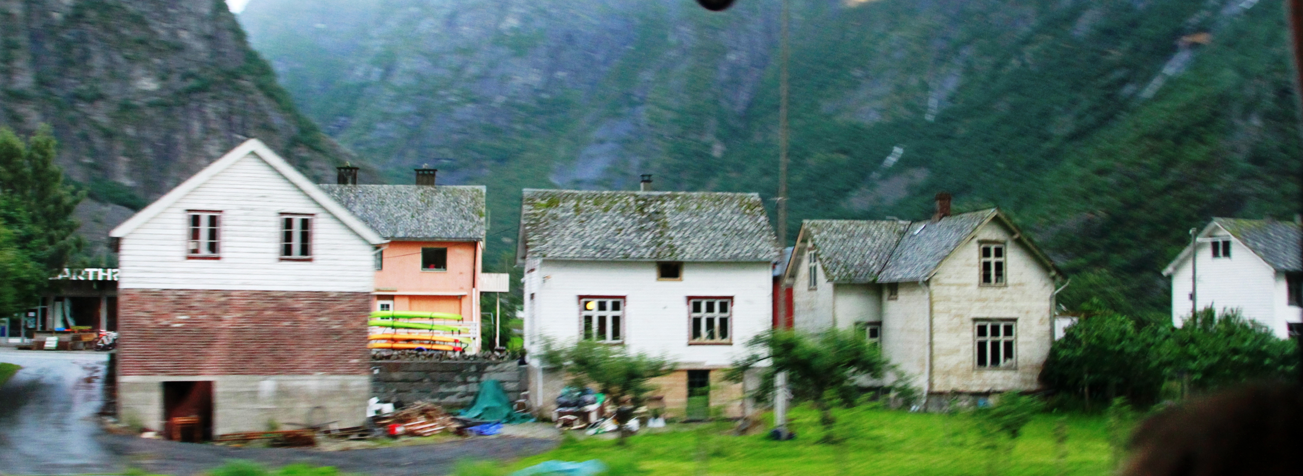 Øvre Eidfjord, a settlement in Eidfjord municipality, in the inner part of Hardangerfjorden, Norway